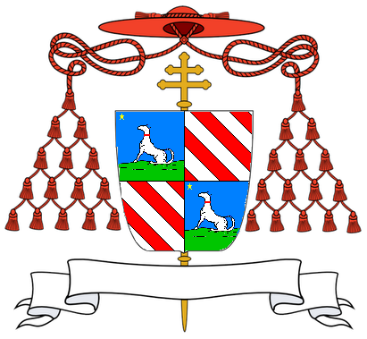 Coat of arms of Cardinal Ferdinando Taverna